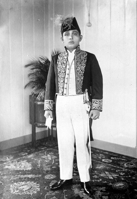 Mahmud Abdul Jalil Rahmad Shah, Sultan of Langkat, North Sumatra